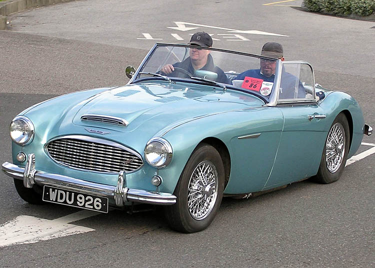 1958 Austin-Healey 100/6 Sports at the Great West Road Run rally at Aust Services, Aust, Bristol, England. Taken by Adrian Pingstone in October 2004 and released to the public domain.